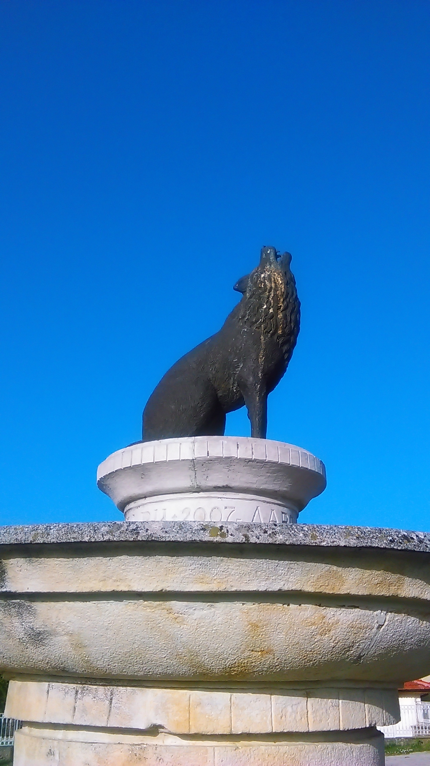 The wolf is the town symbol of Valchi Dol, Bulgaria